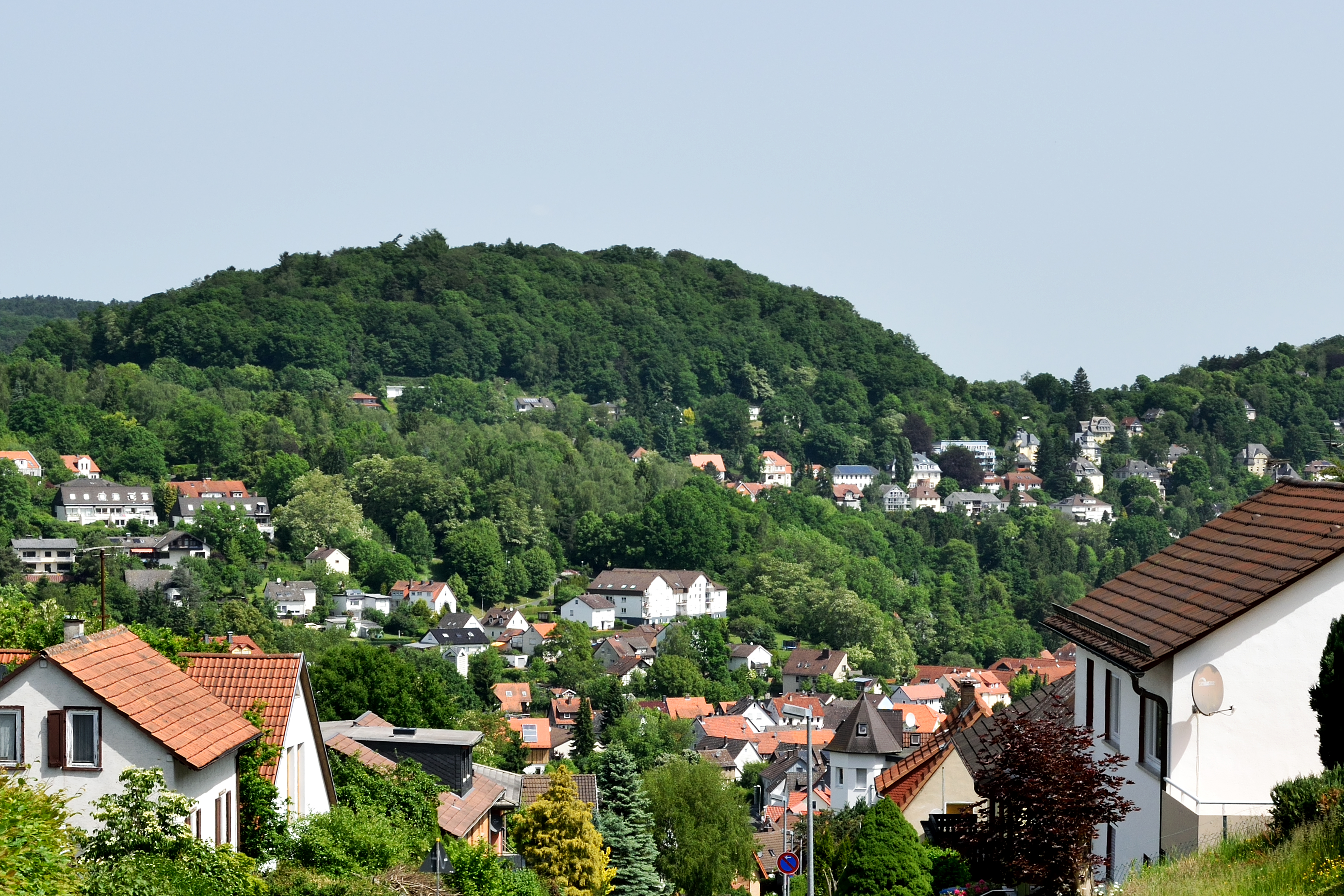 Dammels hill in Marburg